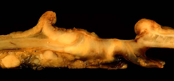 This picture shows the same case seen in Image:Adenocarcinoma of the stomach.jpg This is a longitudinal section cut in the plane of the lesser curvature. The pylorus is to the left. Note several prominent nodes of the lesser omentum; these contained metastatic cancer. A more subtle featue of the cancer can be seen by comparing the gastric wall on the left and right sides of the ulcer. To the left, the normal anatomic layers (mucosa, submucosa, muscularis propria, and serosa) are clearly identifiable, and no tumor is grossly present. The wall to the right of the ulcer also shows identifiable anatomic layers, but they are all cemented together by the white carcinoma that extends between the layers, like icing in a layer cake. Photograph by Ed Uthman, MD. Public domain. Posted 3 Jan 99